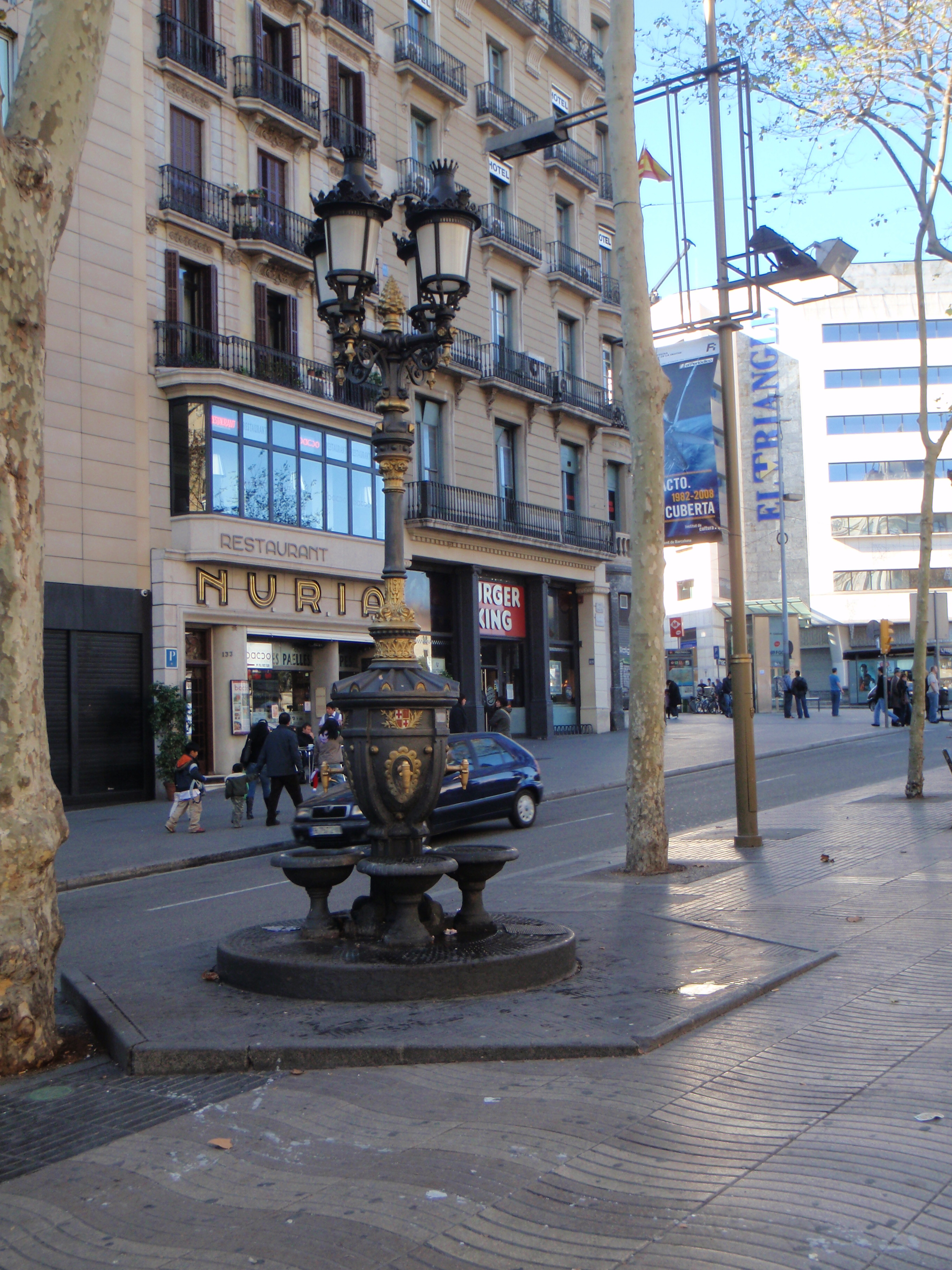 Streetlight from Barcelona. Style tells of about 100+ yrs since design